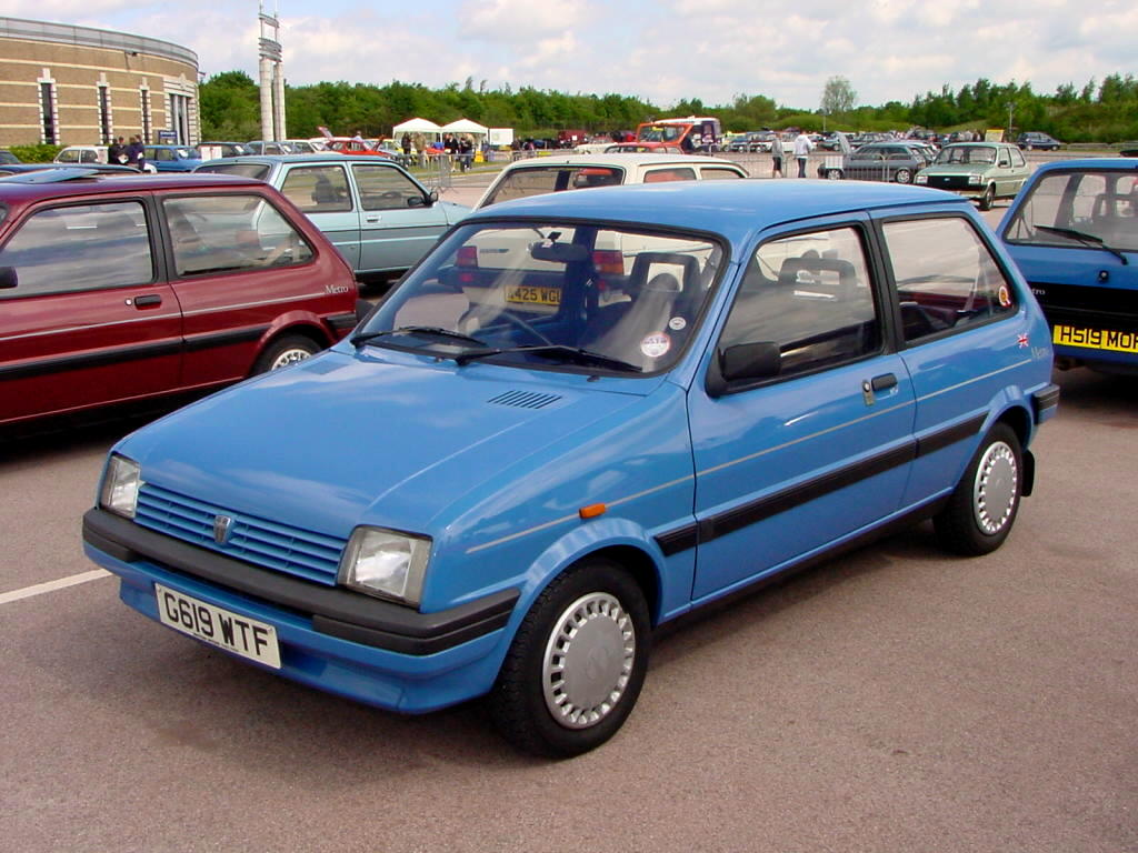 August 1989 blue Austin Metro 1.0. Metro 30th Anniversary at Heritage Motor Centre, Gaydon, UK